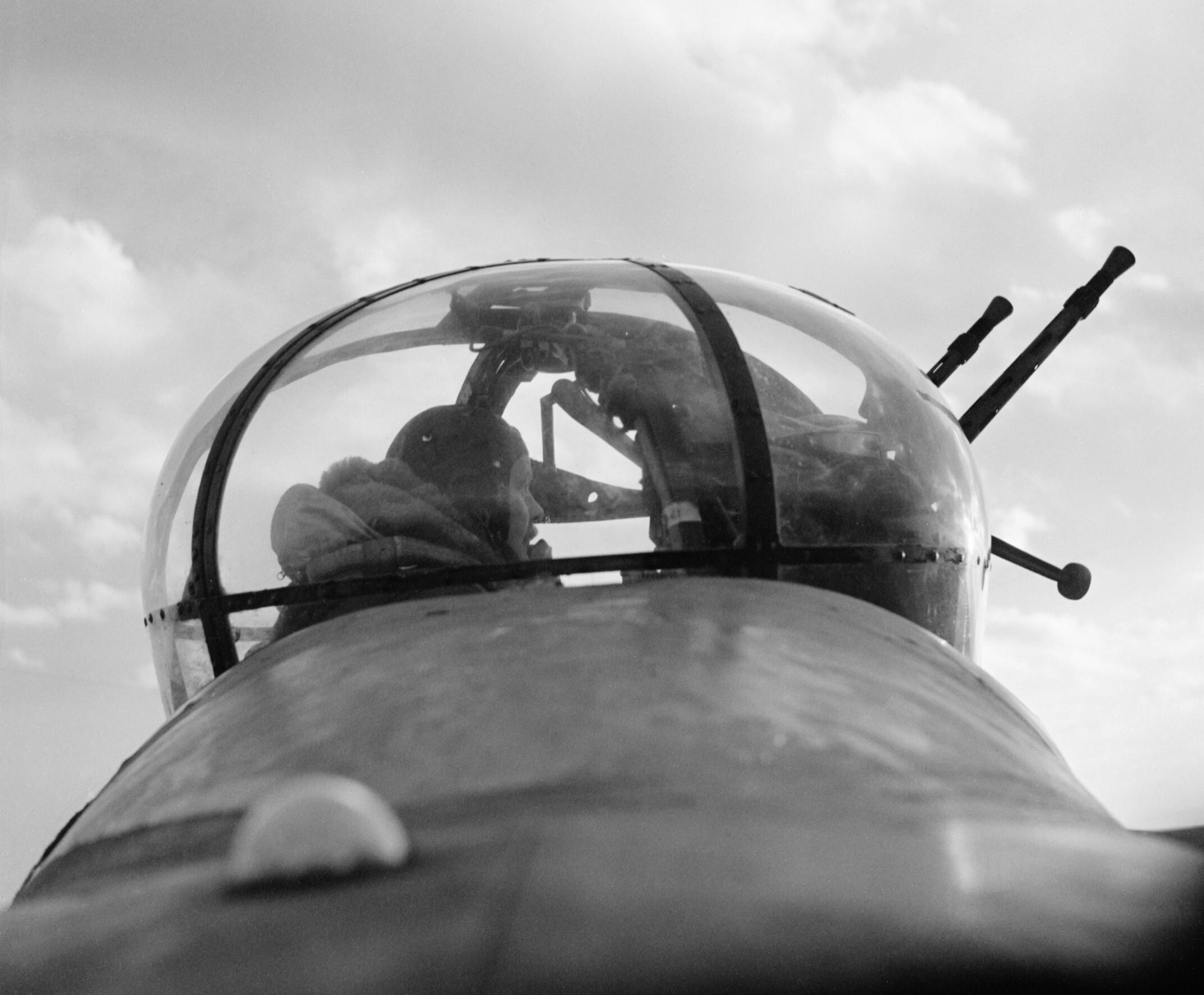 A No. 57 Squadron Lancaster mid-upper gunner in his turret, February 1943. A No 57 Squadron mid-upper gunner, Sergeant 'Dusty' Miller, 'scans the sky for enemy aircraft' from a Lancaster's Fraser Nash FN50 turret. This image was part of a sequence taken for an Air Ministry picture story entitled 'T for Tommy Makes a Sortie', which portrayed the events surrounding a single Lancaster bomber and its crew during a typical operation.